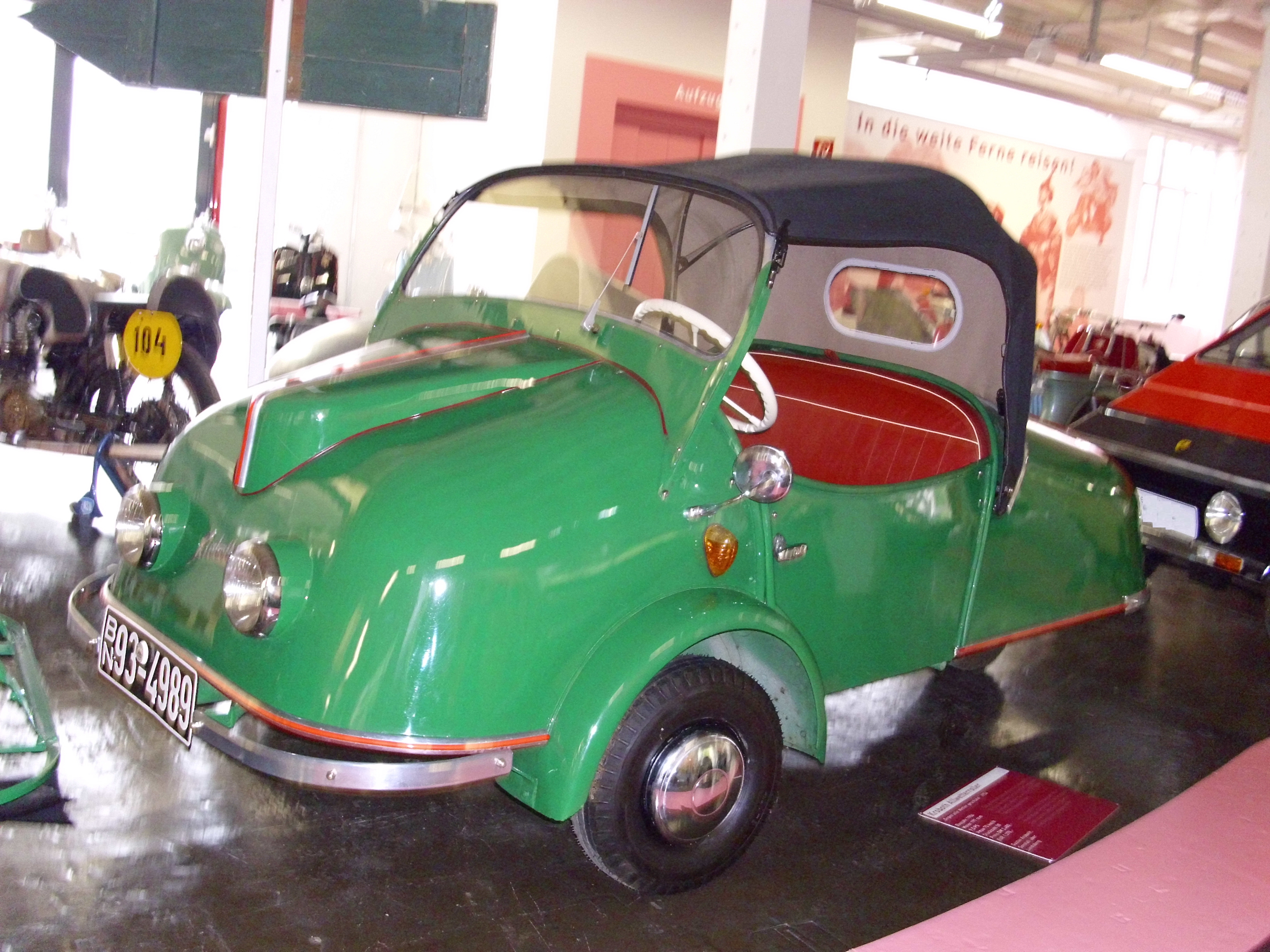 Kroboth 1954